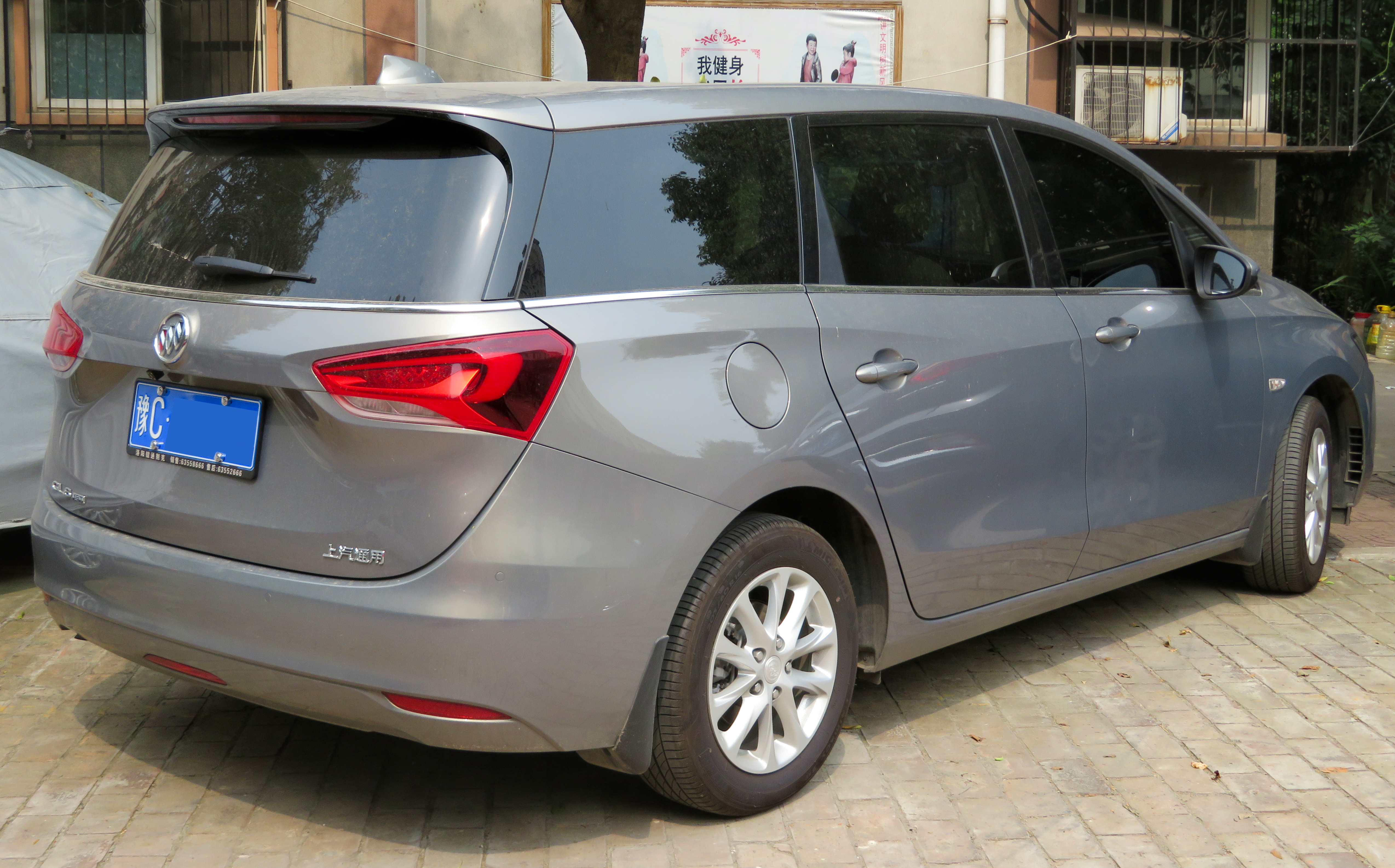 A 2018 Shanghai-GM Buick GL6 photographed in Xigong District, Luoyang, Henan province, China